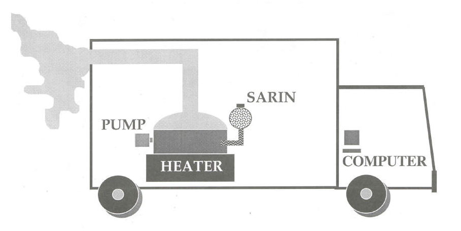 Description of Aum Shinrikyo sarin truck. From Proceedings of the Seminar on Responding to the Consequences of Chemical and Biological Terrorism